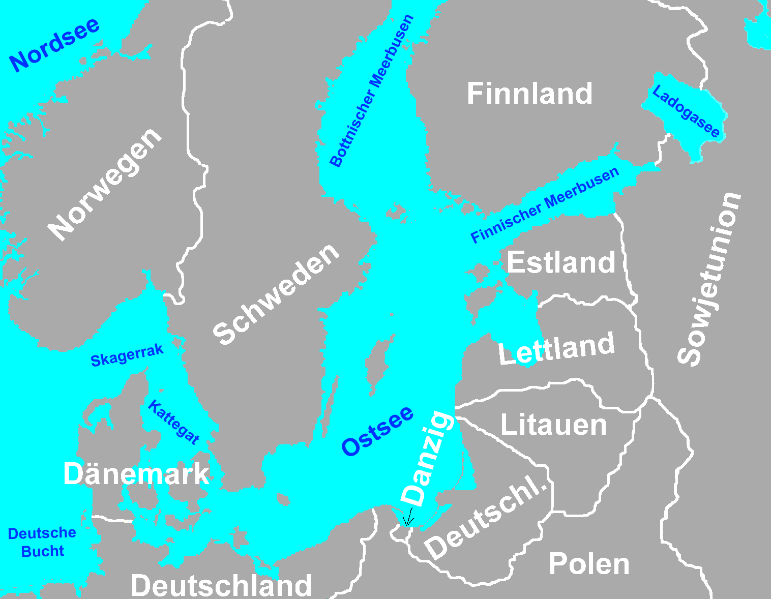 Map of the Baltic Sea in September 1939.